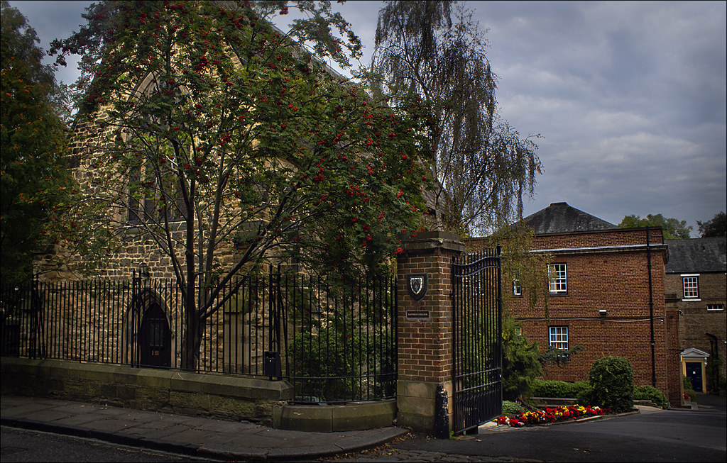 View of Hatfield College chapel